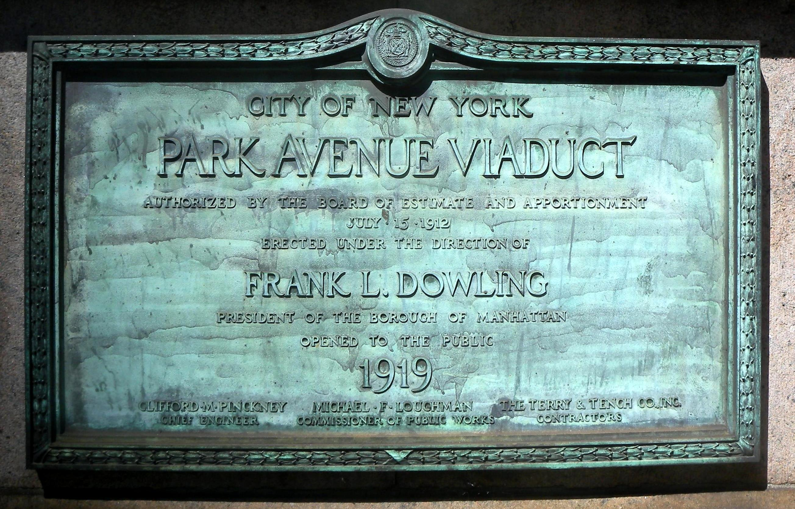 Looking west at plaque for Viaduct on a sunny morning.